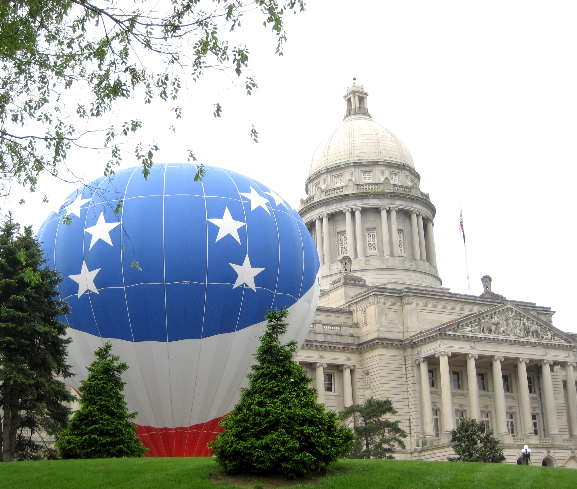 Balloon over the Capitol of Kentucky, Frankfort, Kentucky